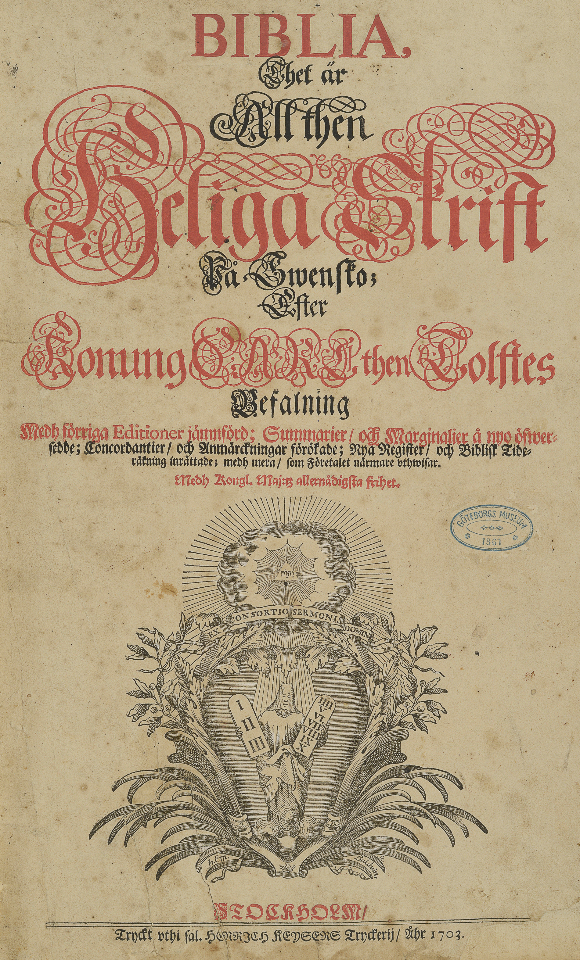 Picture of the Karl XII Bible printed in 1703